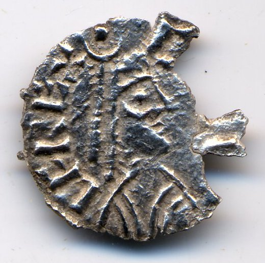 A damaged early-medievall silver halfpenny of Ceolwulf II of Mercia (874-879), cross-and-lozege type. Halfpennies were not previously recorded for this issue and the diameter of 14mm demonstrates that it is a halfpenny.